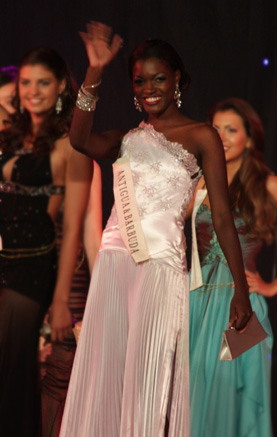 Miss Antigua & Barbuda 2008 Athina James during Miss World 08